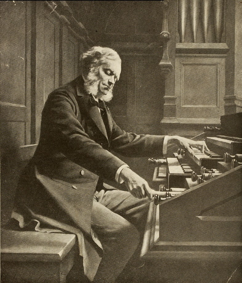 Photo of Jeanne Rongier's 1885 painting “César Franck at the console of the organ at St. Clotilde Basilica, Paris, 1885”.